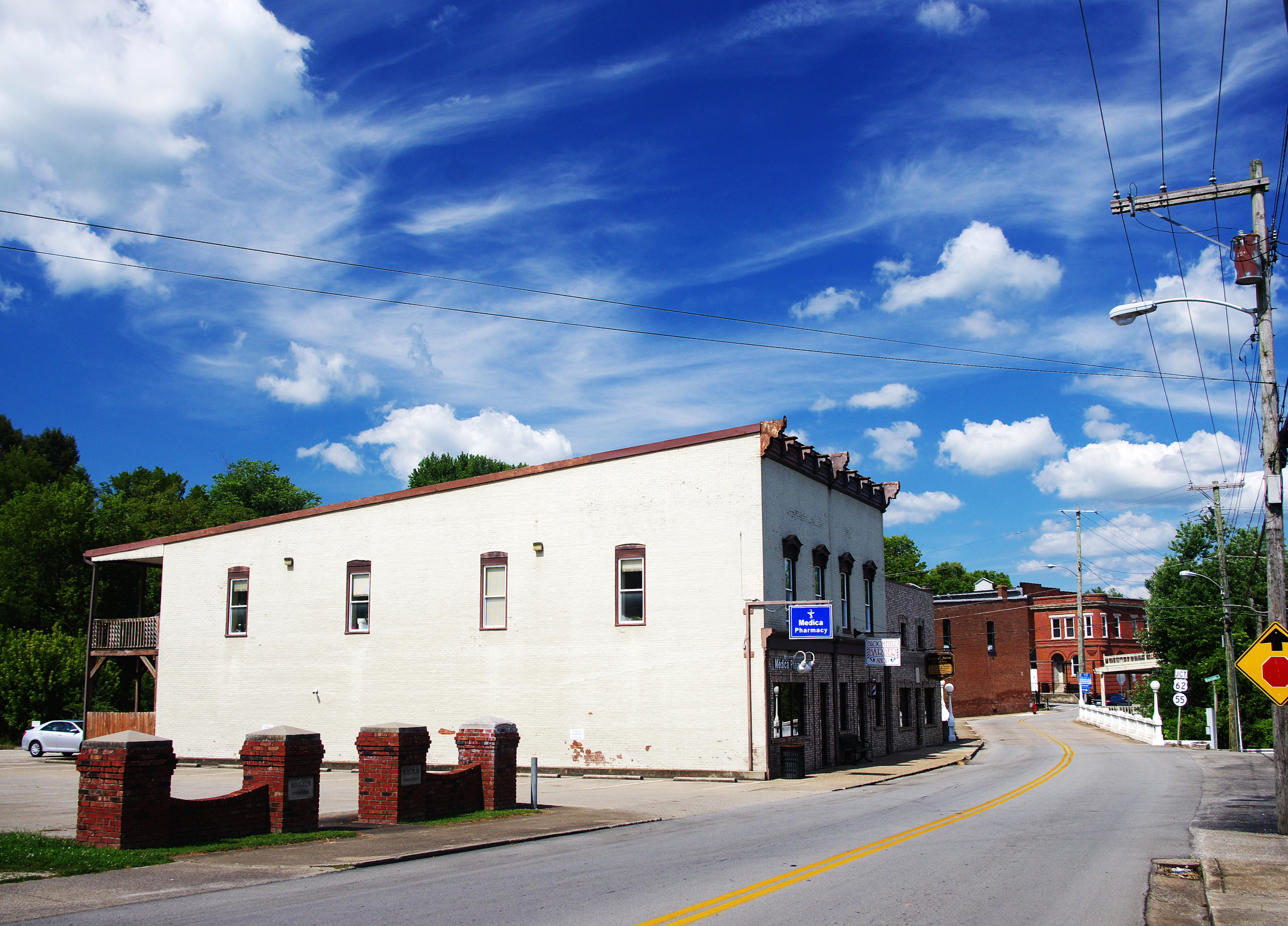 Kentucky Route 48 (Fairfield Hill Road) in Bloomfield, Kentucky, United States. The Medica Pharmacy and Bloomfield Barbershop occupy the building on the left.